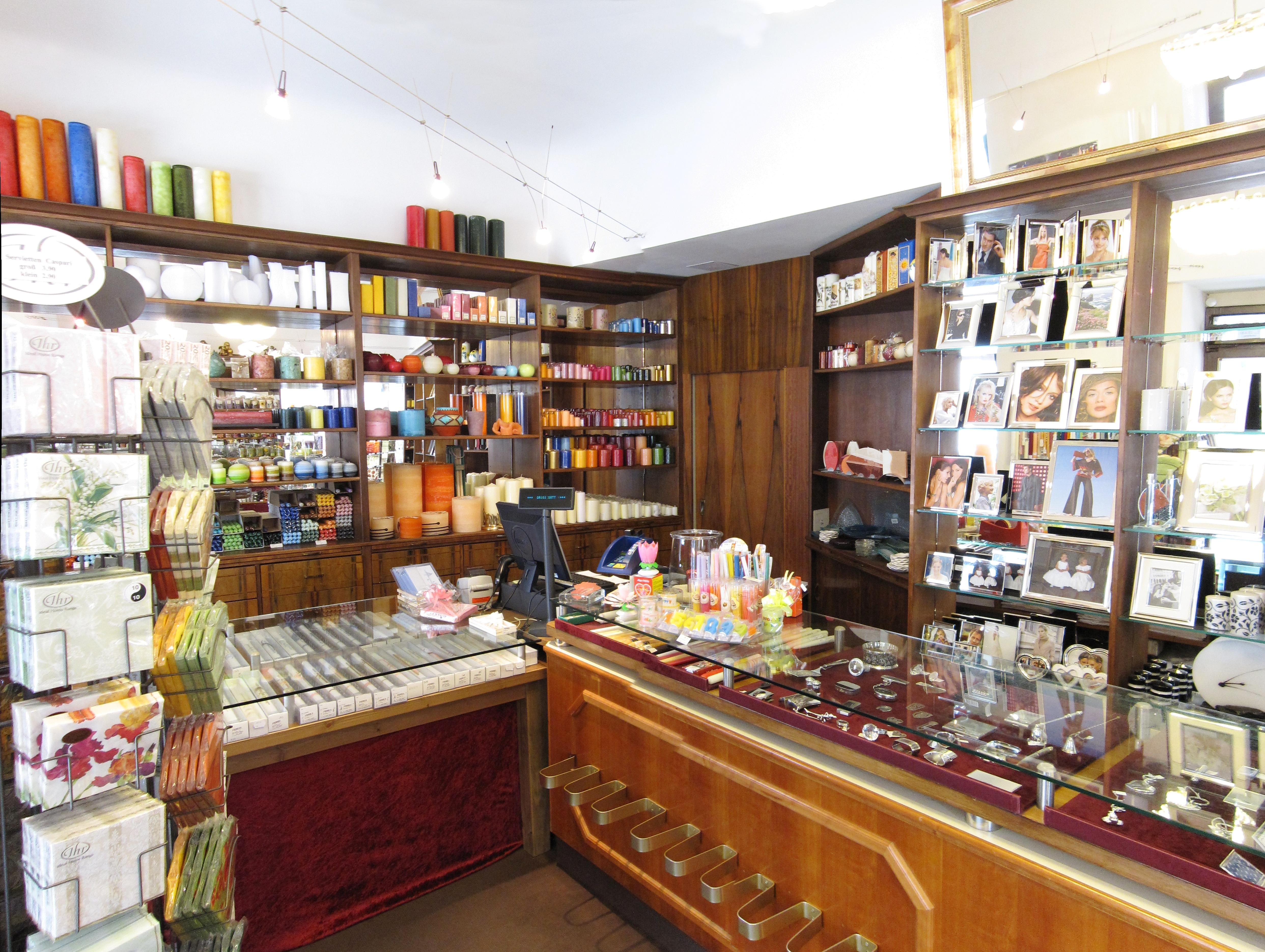 Interior of Josef Altmann jun. candle-store in Vienna